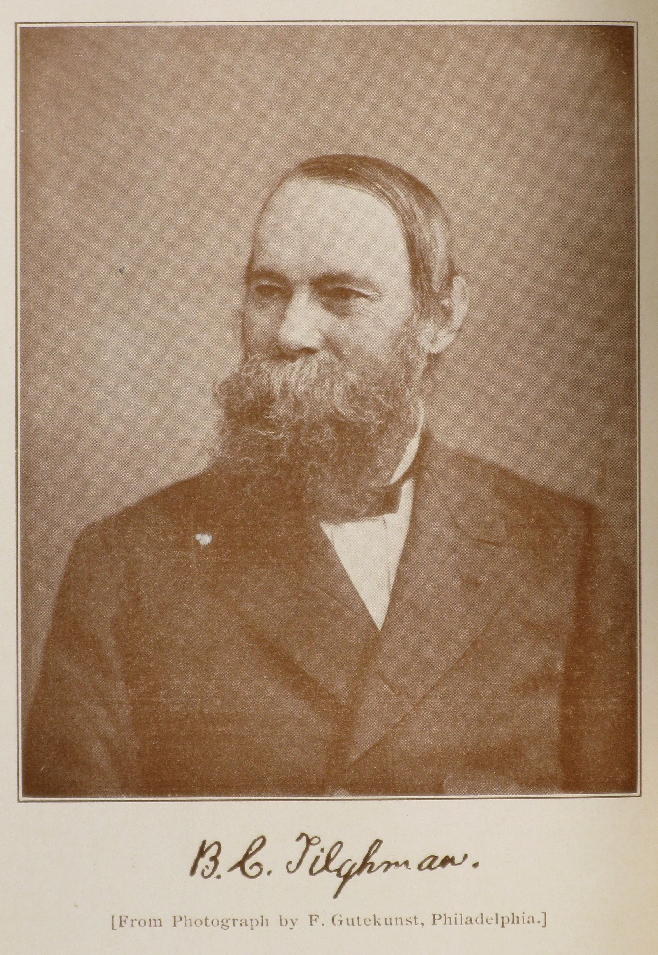 Picture of Benjamin Chew Tilghman, American inventor. Photographed by me off the 1912 book mentioned above.